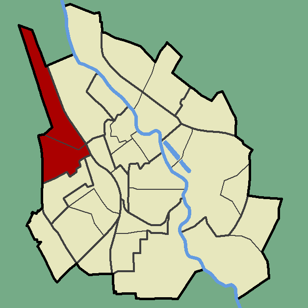 Locator map of Veeriku, Tartu, Estonia.